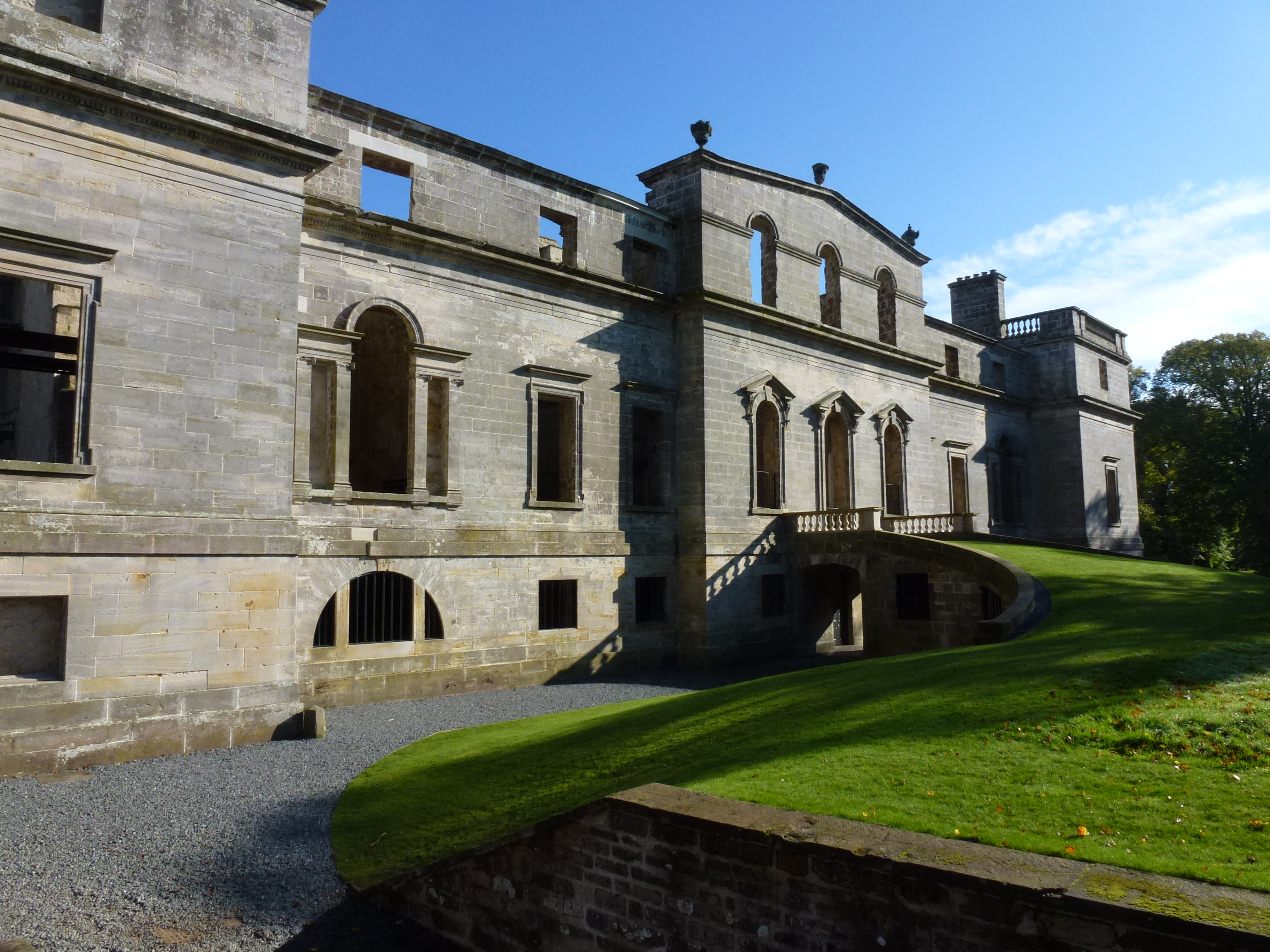 The shell of Penicuik House (which burned out in 1899) has been stabilised. It is a fine 18th-century palladian mansion and its surrounding parkland is of importance in the history of landscape architecture.